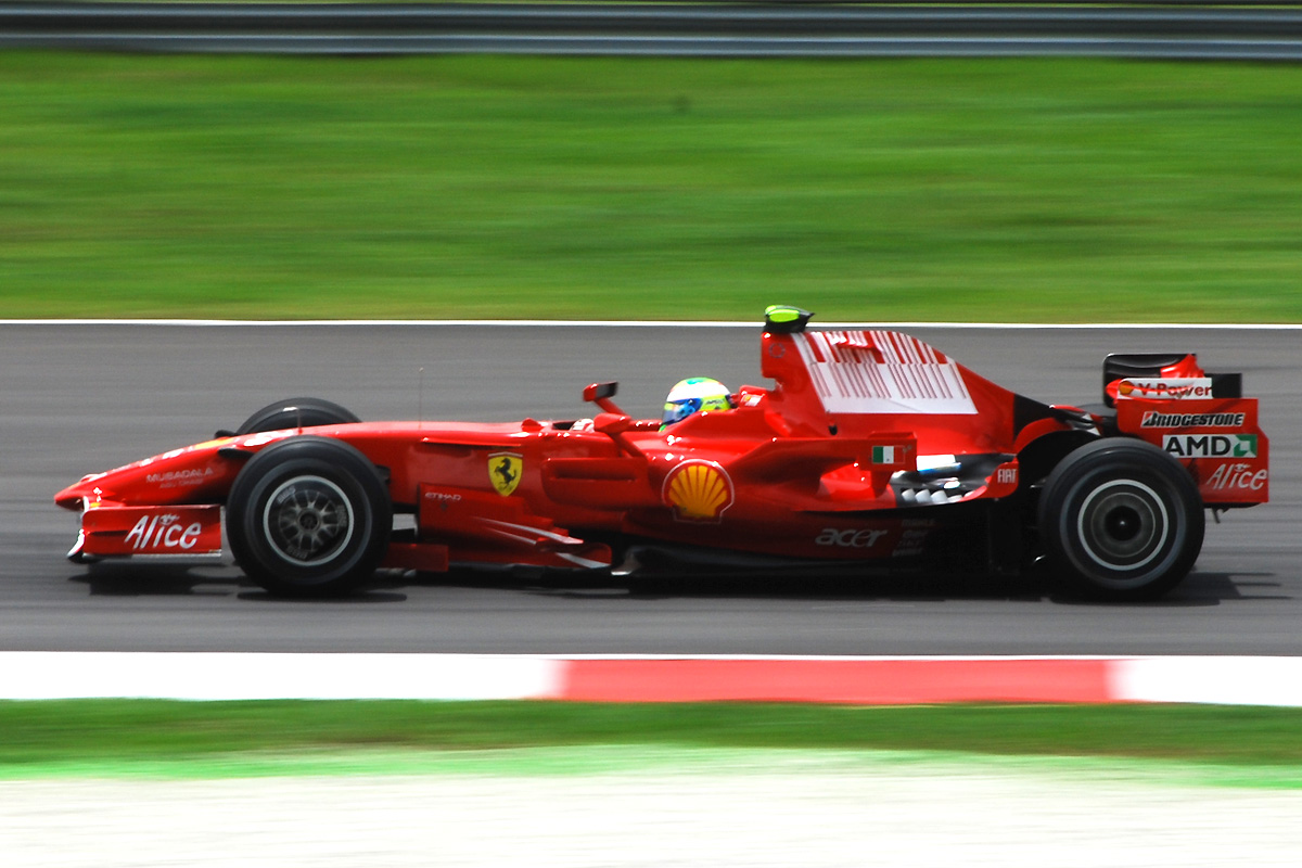 Massa driving for Ferrari at the 2008 Malaysian Grand Prix. This was uploaded for User:Diniz